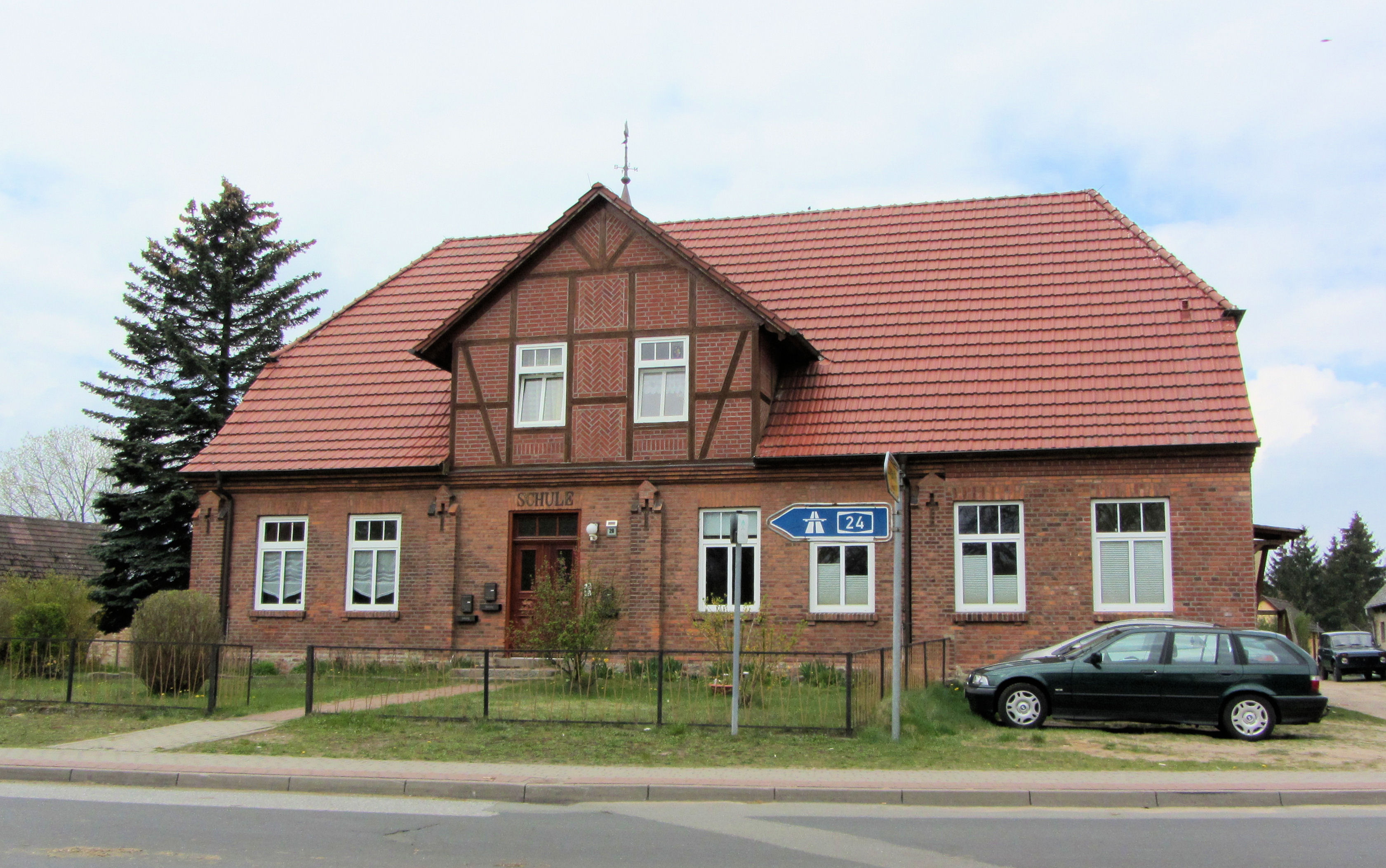 Former school building in Hoort, district Ludwigslust-Parchim, Mecklenburg-Vorpommern, Germany